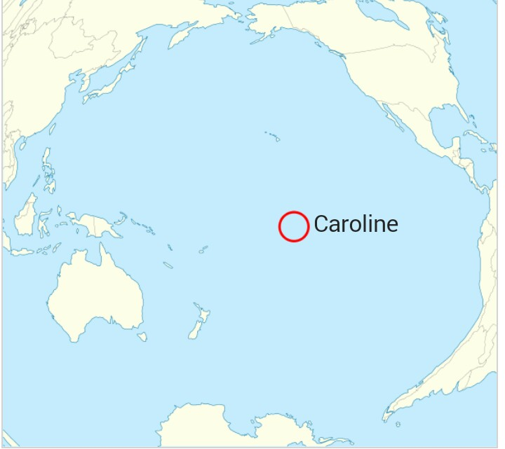 It is a screenshot of map from English Wikipedia